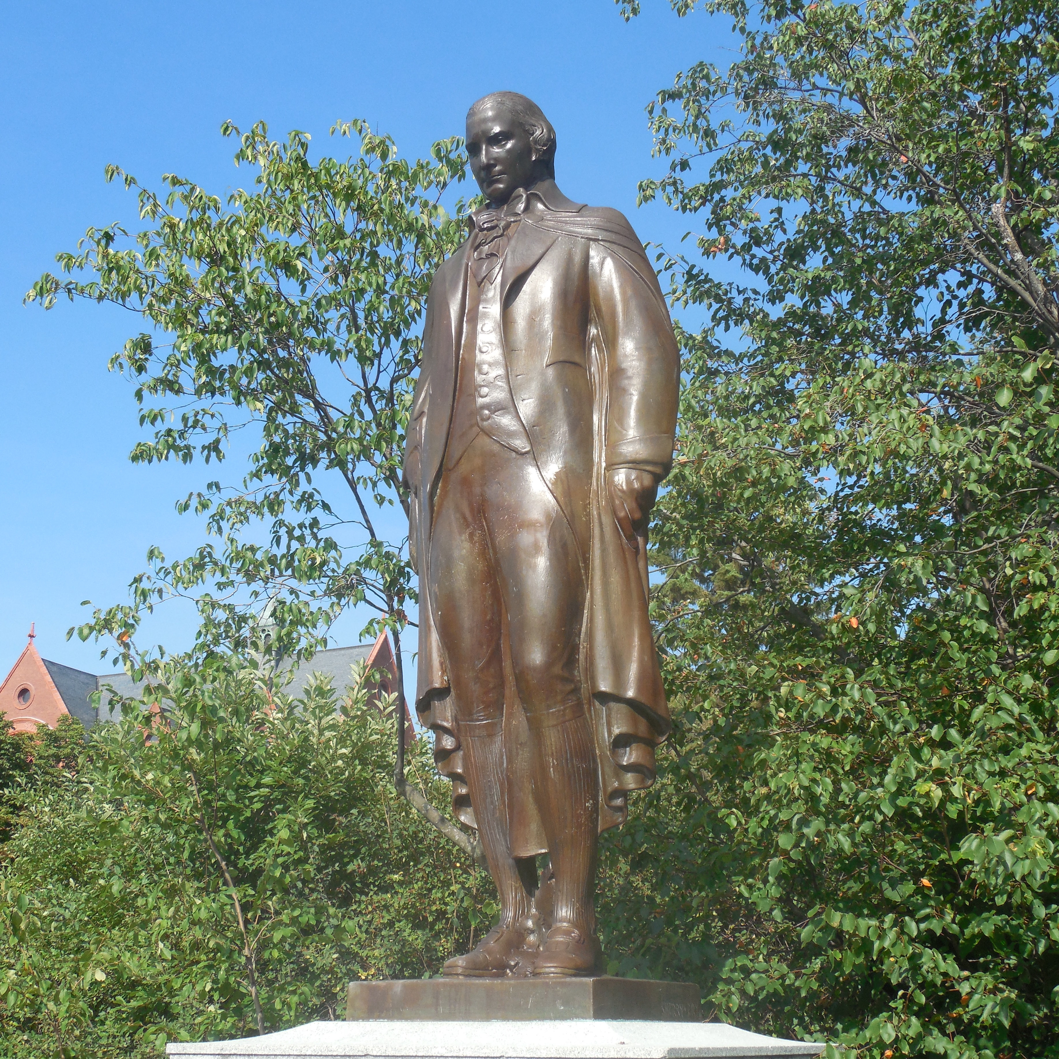 Bronze monument of UVM's founder, Ira Allen at the University Green, University of Vermont (Sculptor: Sherry Fry, circa 1921): 3 Aug 2015